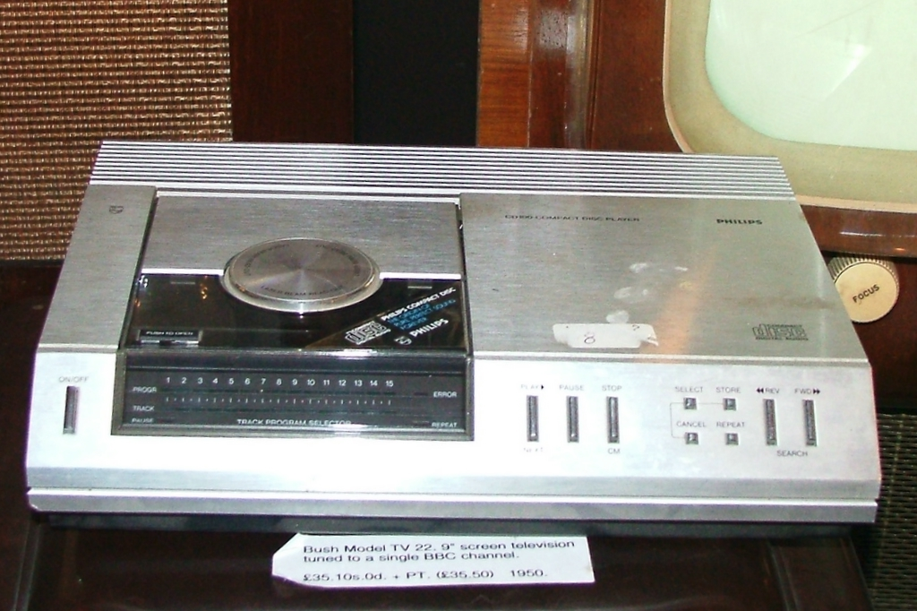 A Philips CD100 CD player, which was released in August 1982 as the first CD player. Taken at Amberley Working Museum, England. Note: PHILIPS® is a trademark of Philips Corporation.CD player.